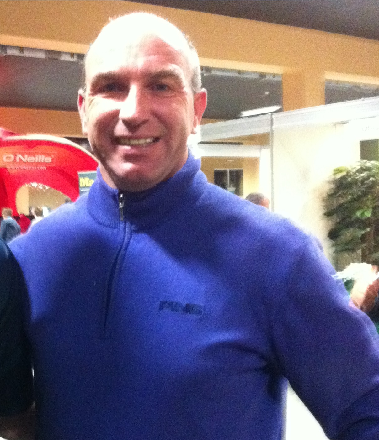 djcarey